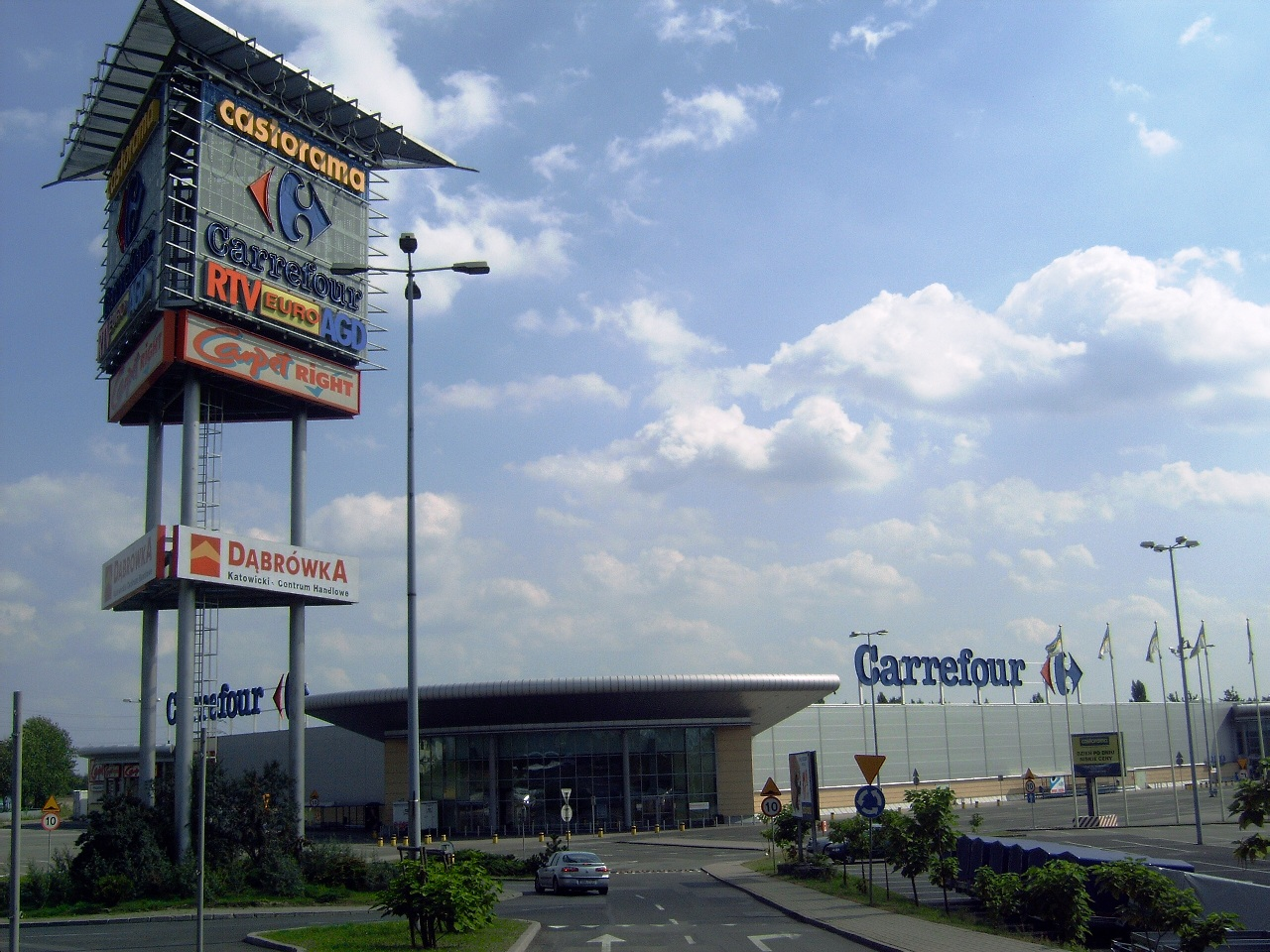 Shopping Center in Dabrowka Mala in Katowice.